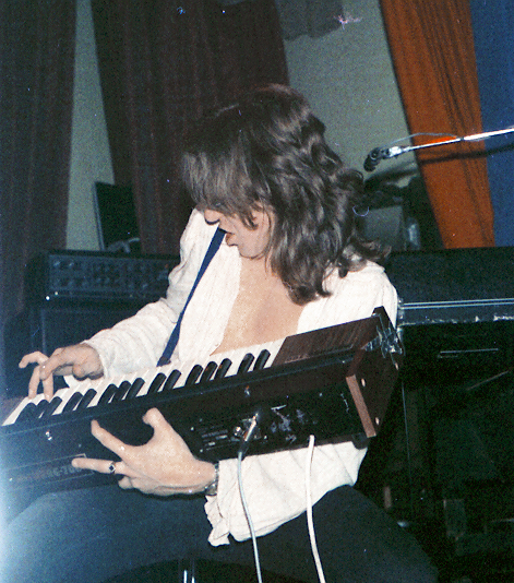 Danny Peyronel, playing with The Heavy Metal Kids, Croydon, 3rd November 1974. Korg miniKORG 700 (1973) or miniKORG 700S (1974)